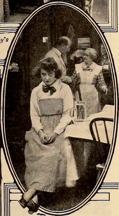 Still from the American film Hard Boiled (1919) with Dorothy Dalton and William Courtright and Gertrude Claire in the background, and C.W. Mason, on page 17 of the March 1919 Film Fun. Courtright plays a money lender who has taken advantage of the older woman.